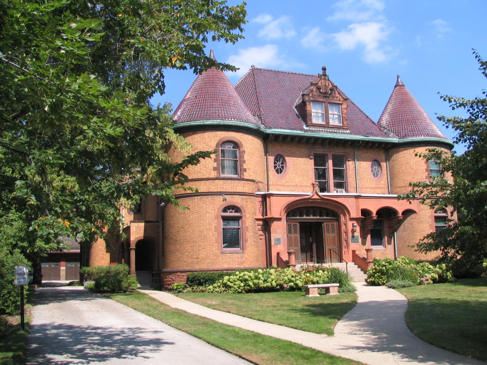 Charles Gates Dawes House, Front View from the Driveway, 225 Greenwood St., Evanston, IL. Built 1894 by Robert Sheppard - H. Edwards Ficken, architect.